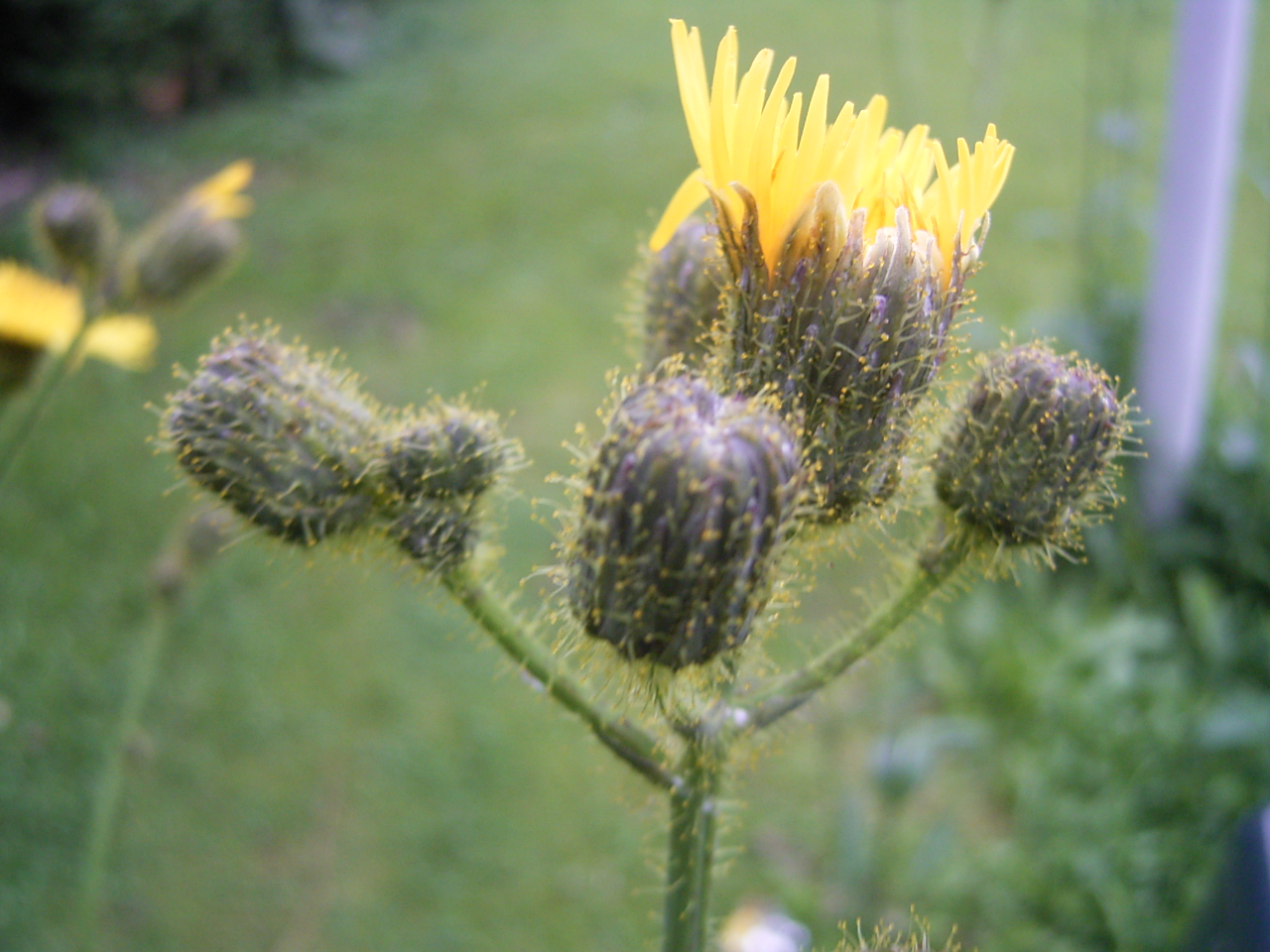 This photo shows the back of the flowerhead of Sonchus arvensis. I took this photo today in The Hague, Netherlands.